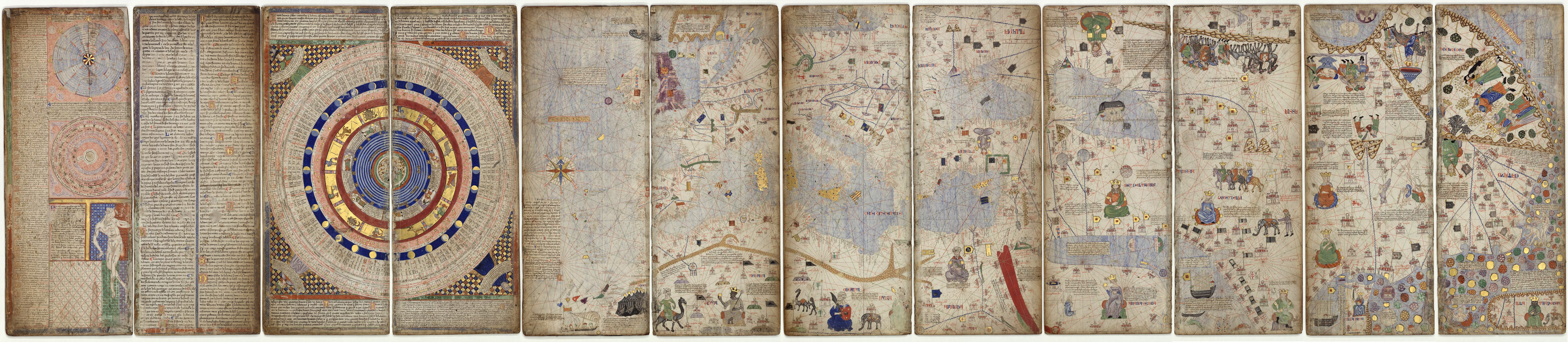 Catalan Atlas (1375) complete from Bubliothèque National de France